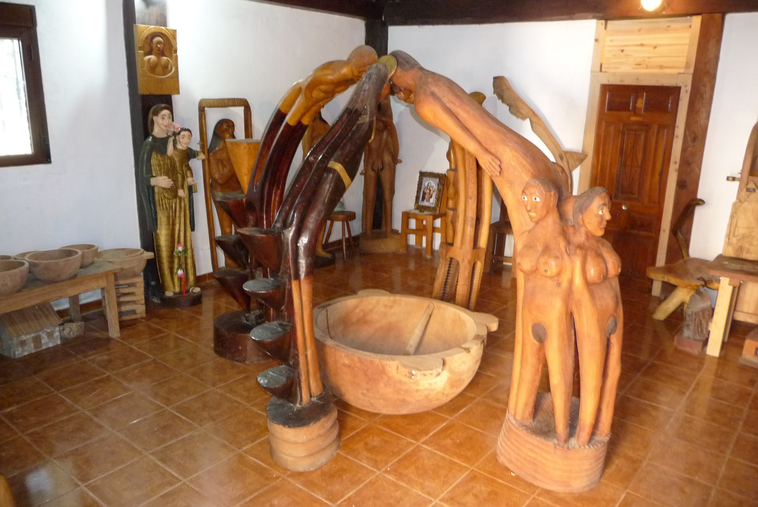 Wood esculture museum Las Cúpulas, Benalup (Andalusia, Spain).